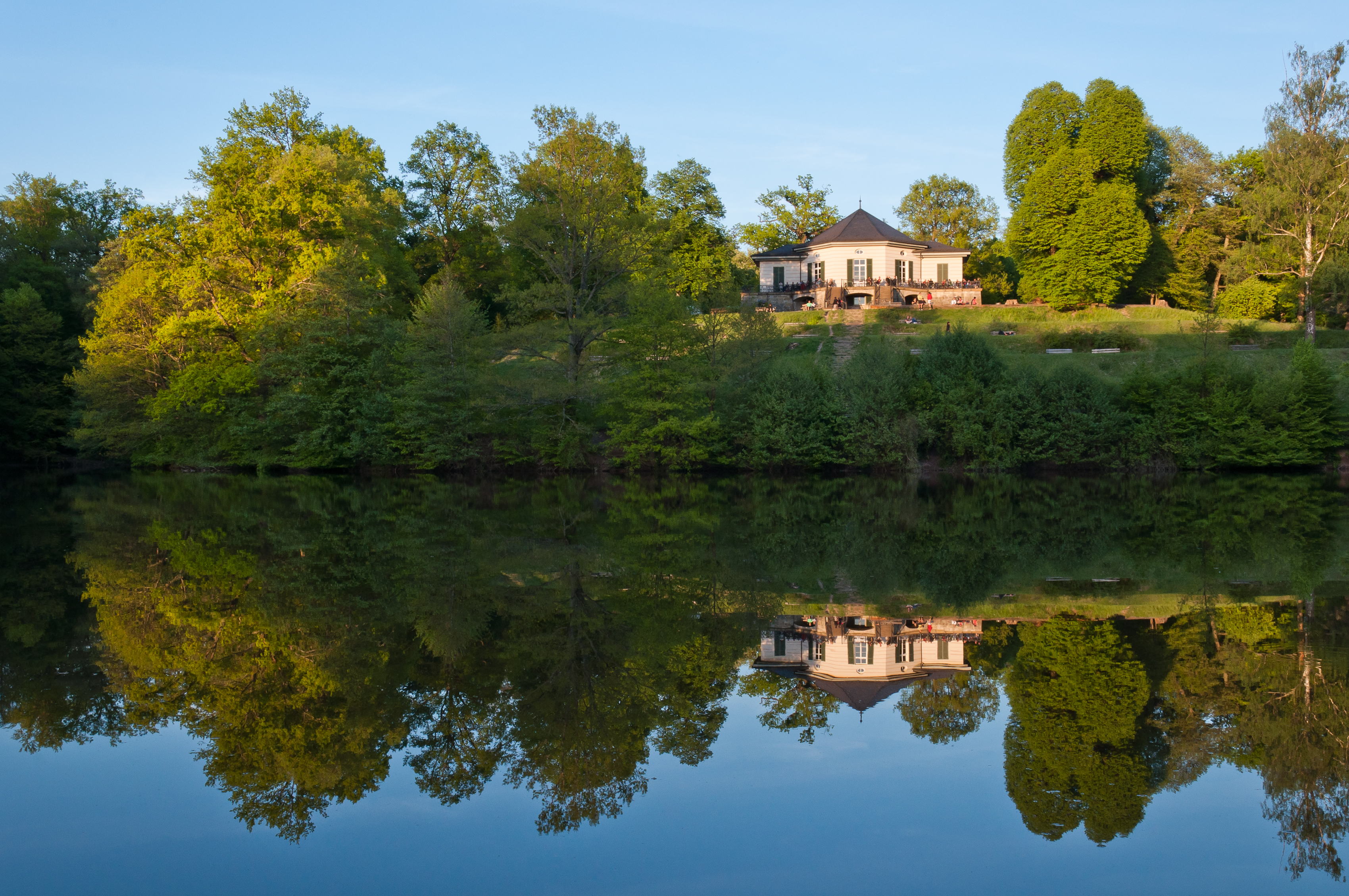 "Bärenschlössle" (bear castle) and "Bärensee" (bear lake) in the natural reserve "Rotwildpark", Stuttgart, Germany.